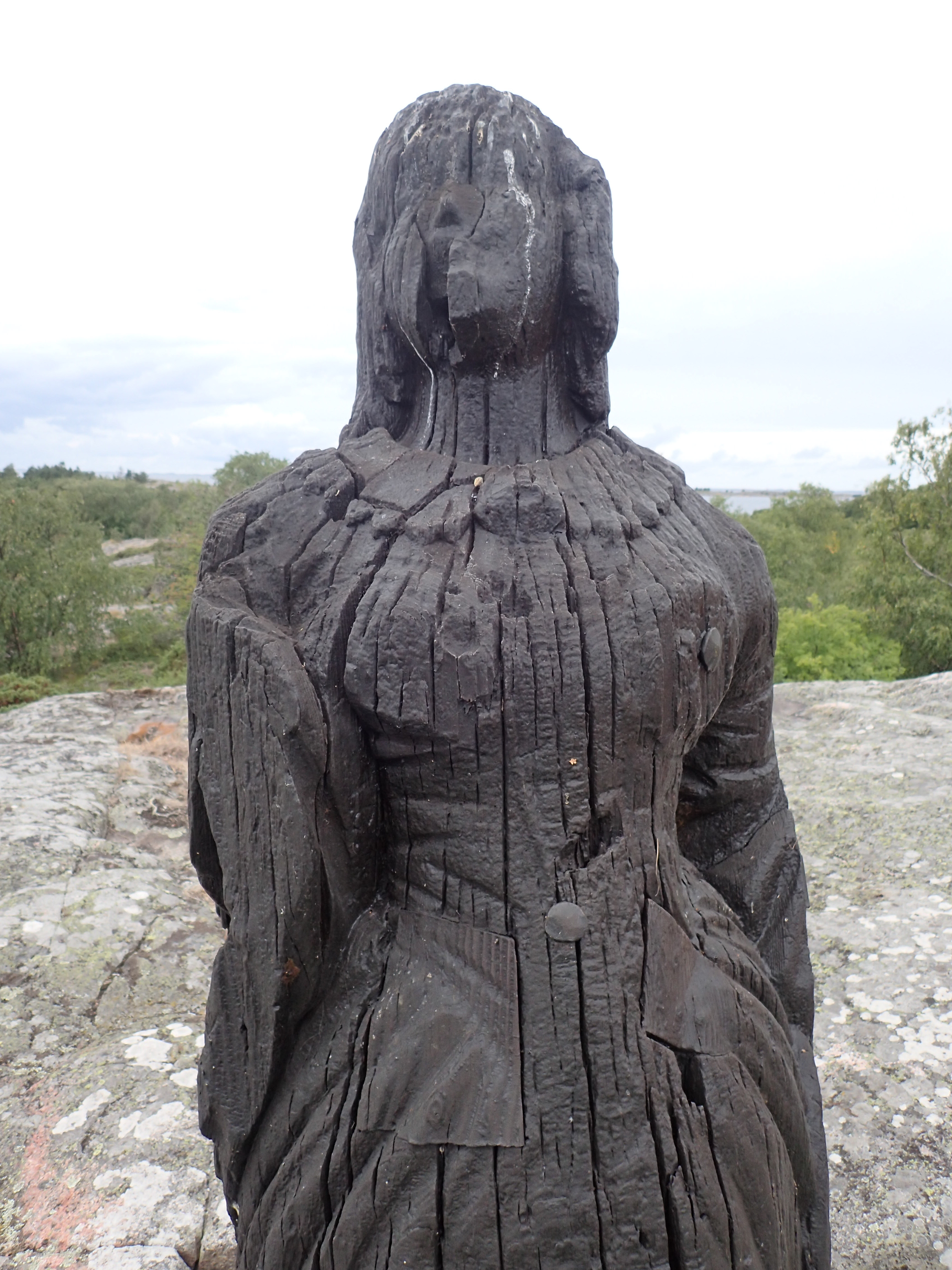 Borstögumman close-up